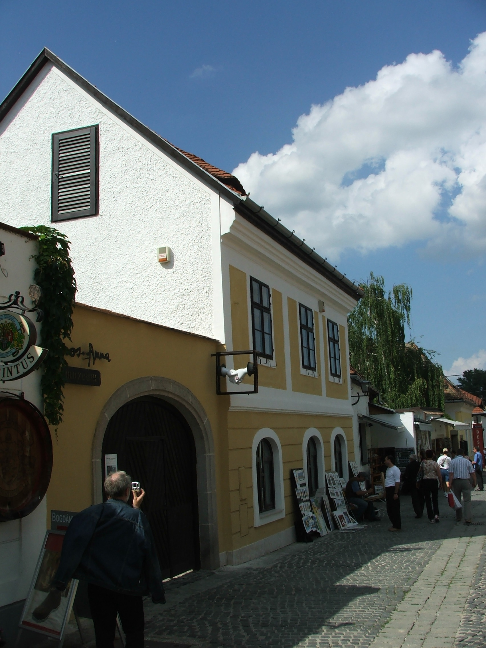 Building of Margit Anna and Imre Amos Museum in Szentendre